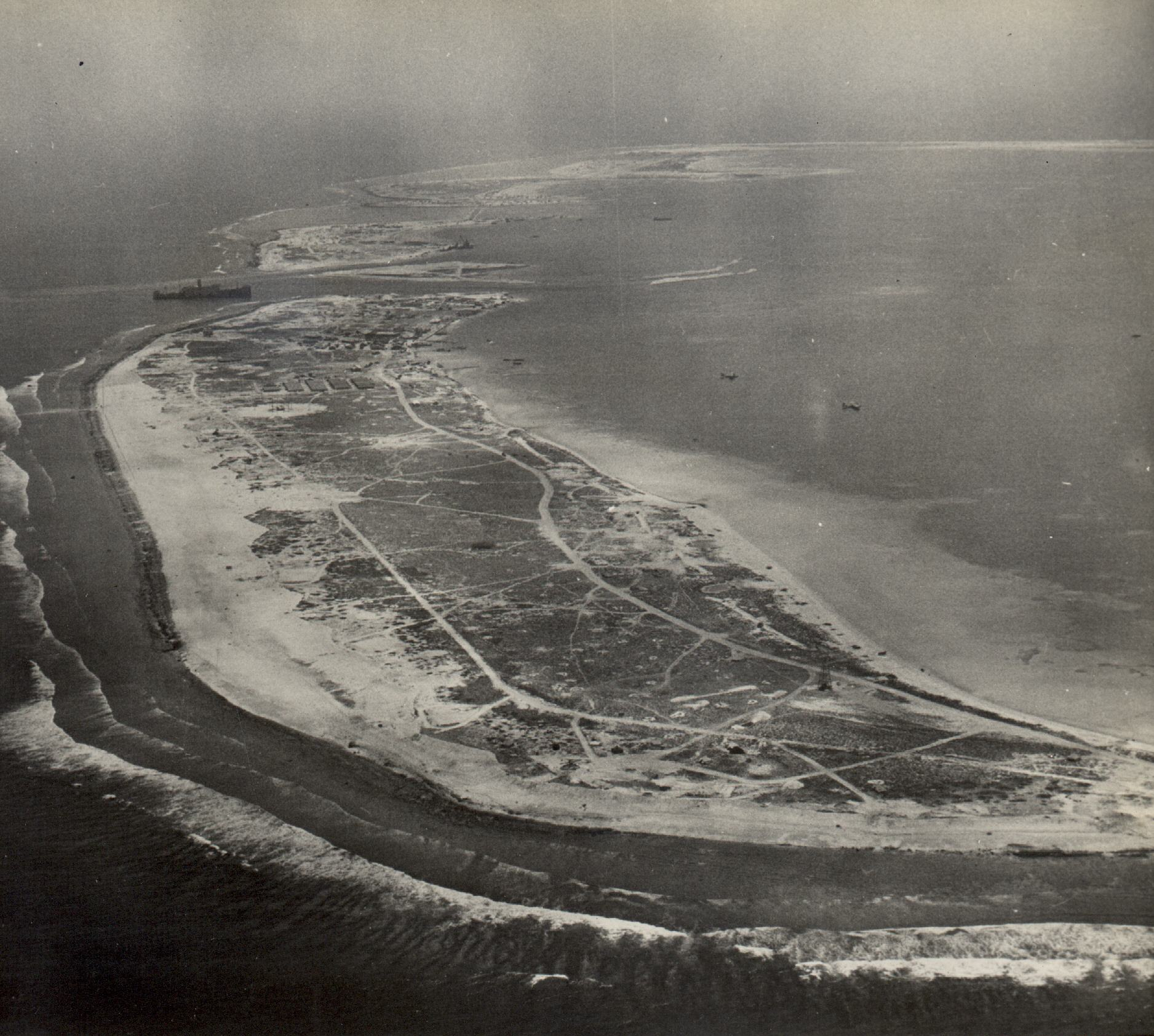 Aerial view of Canton Island Cropped text: CANTON CANTON ISLAND WAS THE SECOND PORT OF CALL ON THE NATS SOUTHBOUND FLIGHTS FROM HONOLULU. POLITICALLY, THE ISLAND IS UNDER A CONDOMINIUM STATUS WHEREBY IT IS USED JOINTLY BY THE U.S. AND BRITAIN FOR 50 YEARS (FROM 1939), AT WHICH TIME THE AGREEMENT MAY CONTINUE IN EFFECT OR BE LITIGATED. MOST REMARKABLE FEATURE OF THE ISLAND IS ITS WEATHER. LOCATED IN A DRY EQUATORIAL BELT IT POSSESSES IDEAL WEATHER CONDITIONS FOR AIRCRAFT OPERATIONS. IN THE BACKGROUND, AND ON THE BEACH IS THE S.S. PRESIDENT TAYLOR